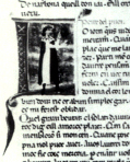 Peire del Puoi from a 13th-century chansonnier.